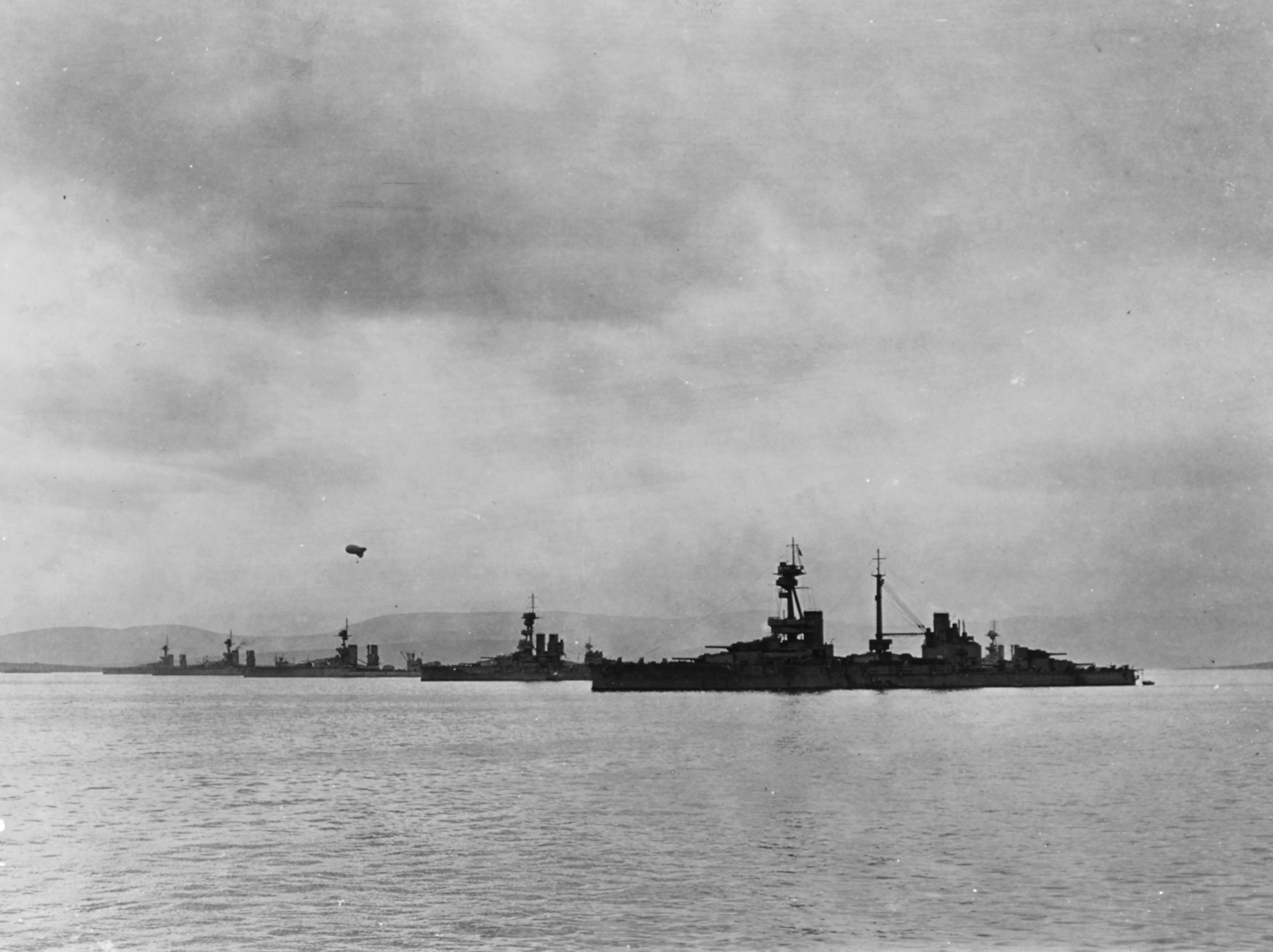 The Royal Navy battleship HMS Agincourt nearest to the camera with other Grand Fleet battleships in Scapa Flow, 1918. HMS Erin is the next ship. The other three are, in no order: HMS King George V, HMS Centurion and HMS Ajax. Note the kite balloon over one of the more distant battleships.